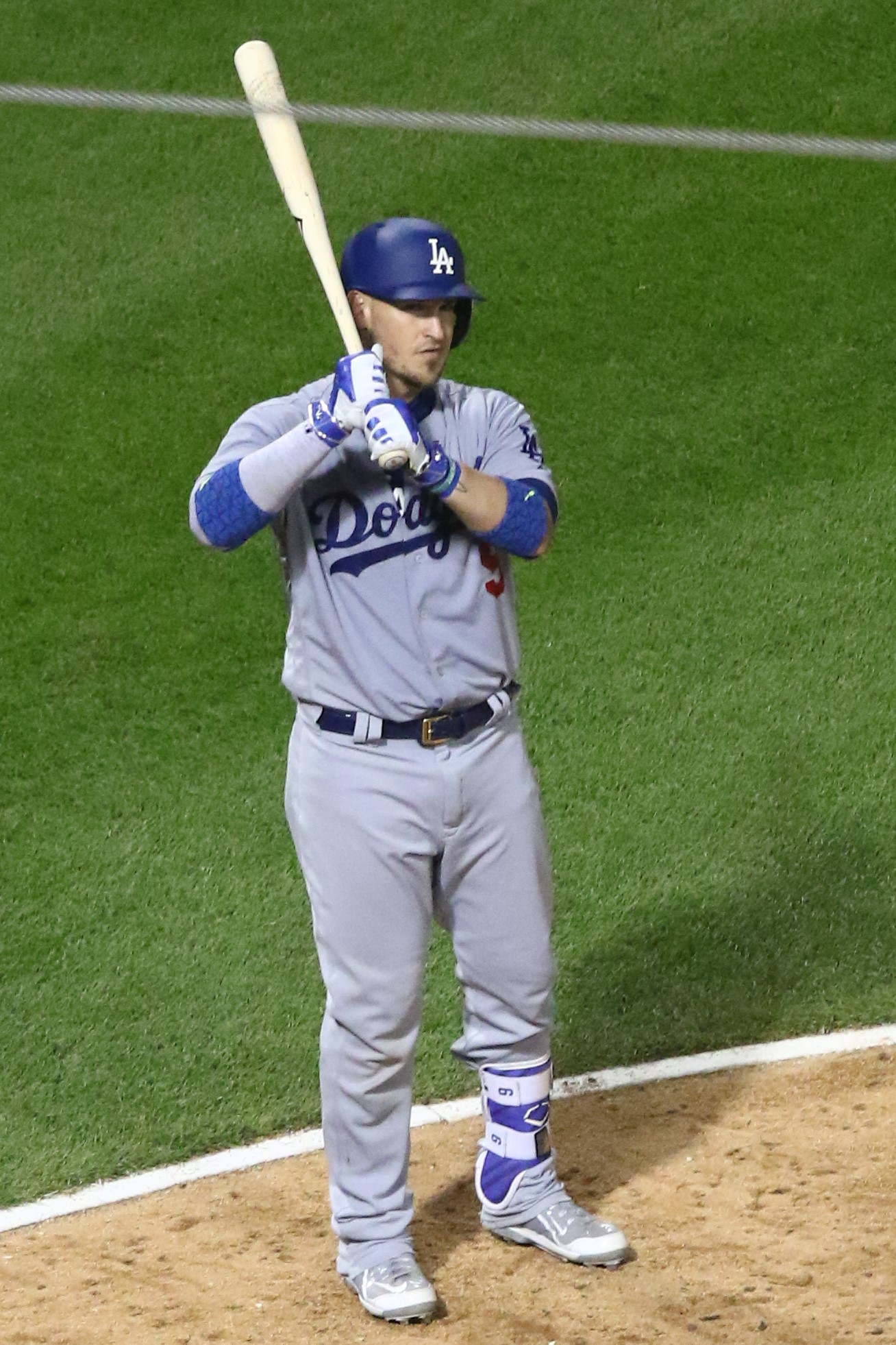 Yasmani Grandal for the 2017 Los Angeles Dodgers